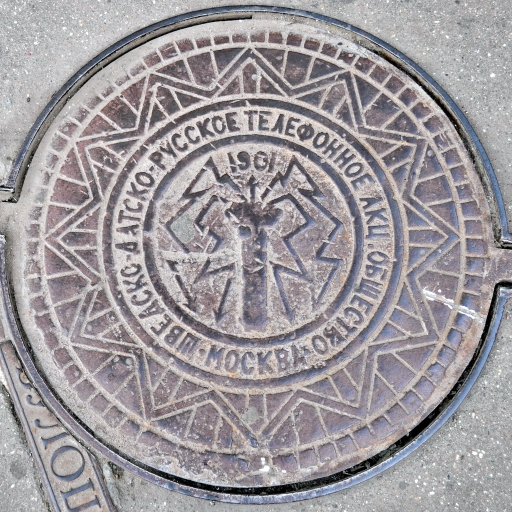 Manhole covers of Swedish-Danish-Russian Joint-Stock Company (an Ericsson subsidiary) in Moscow